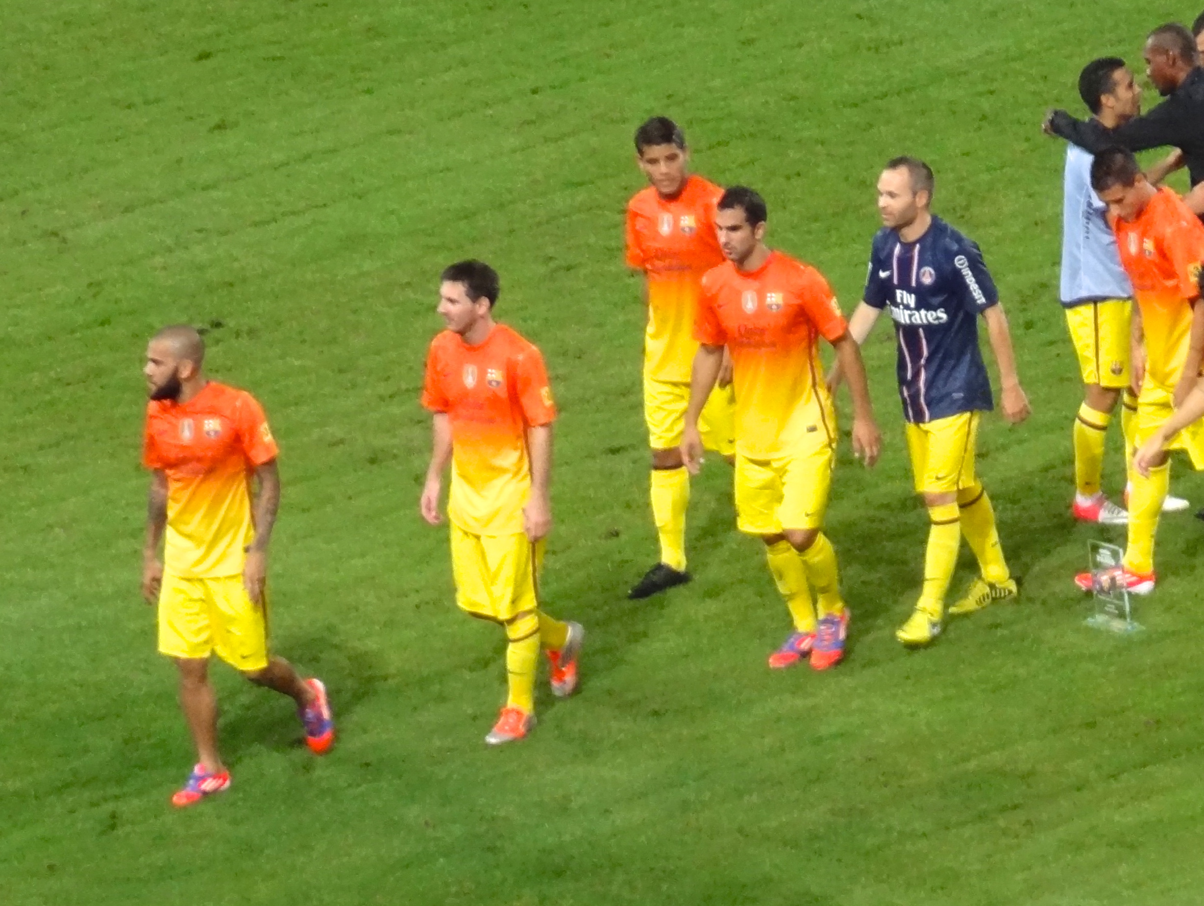 Daniel Alves, Messi, Jonathan Dos Santos, Martín Montoya, Iniesta (with PSG shirt)